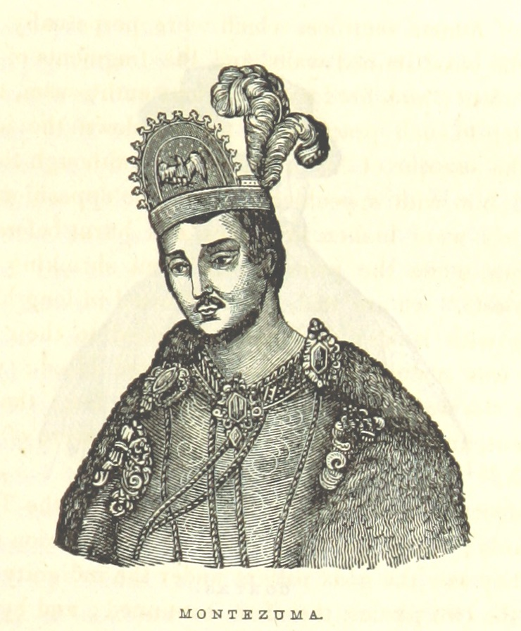 Montezuma II